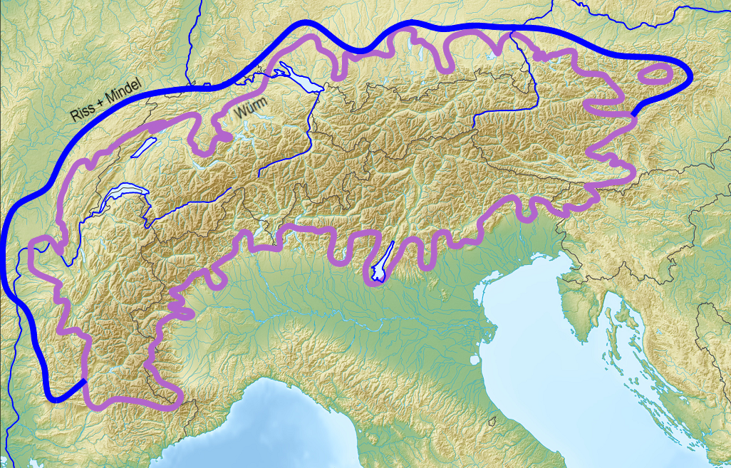 Approximate extent of alpine glaciations